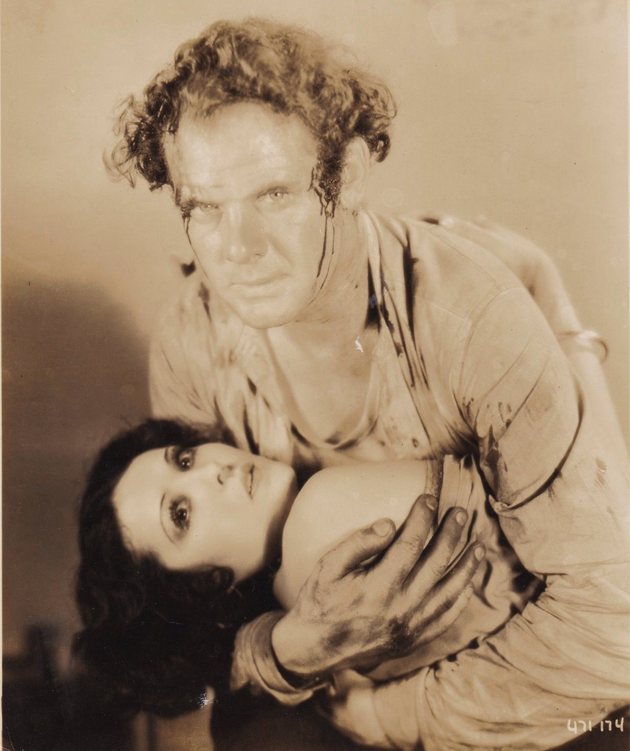 Charles Bickford & Raquel Torres in The Sea Bat (1930) - publicity still (cropped)